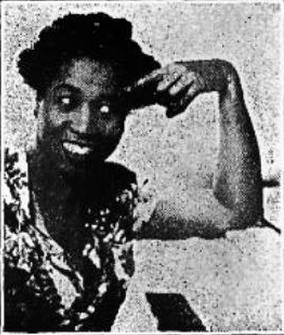 Lil Armstrong